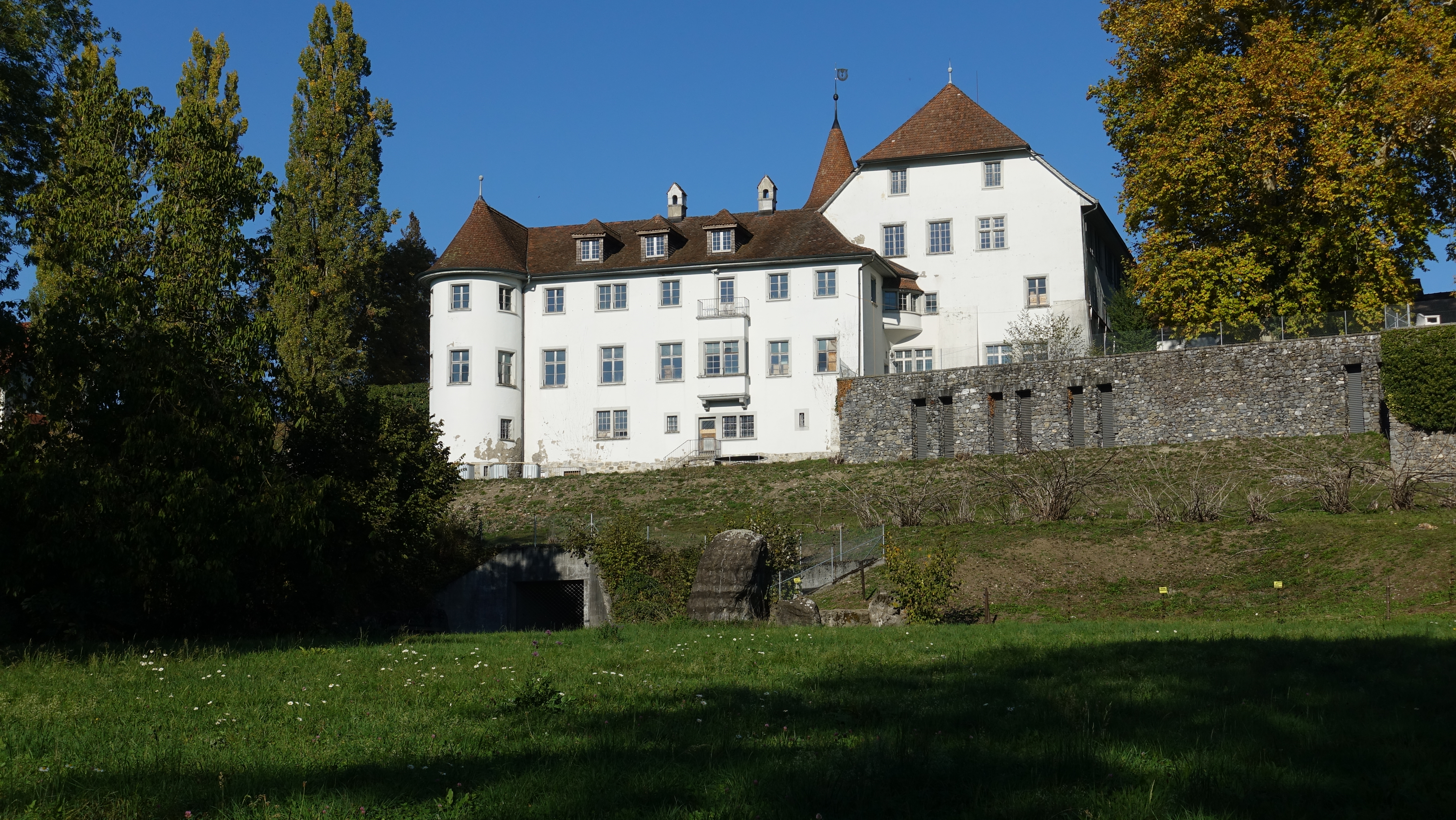 Brestenberg castle